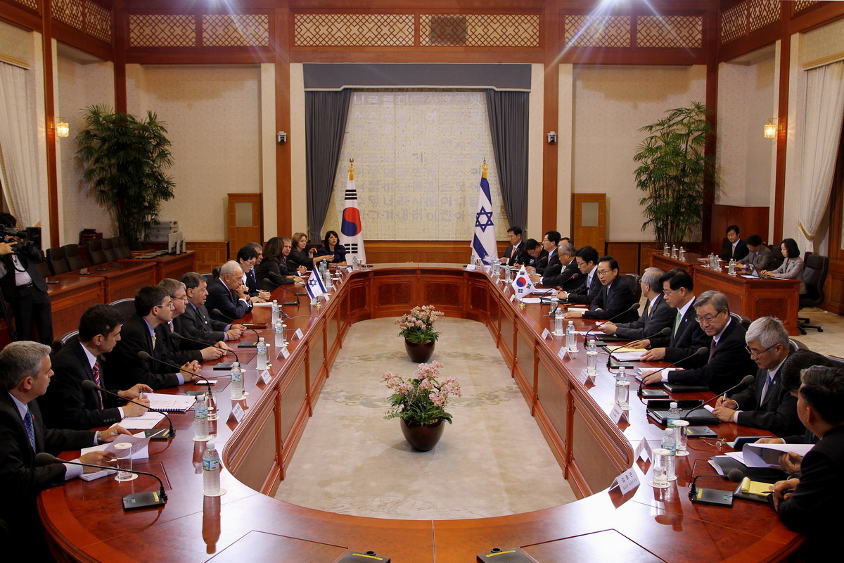 President Lee Myung-bak met with visiting Israeli President Shimon Peres on Jun. 10 and exchanged opinions on cooperation in trade, investment, renewable energy and science and technology.